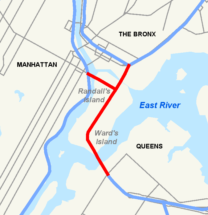 Map of the Triborough Bridge in New York City.